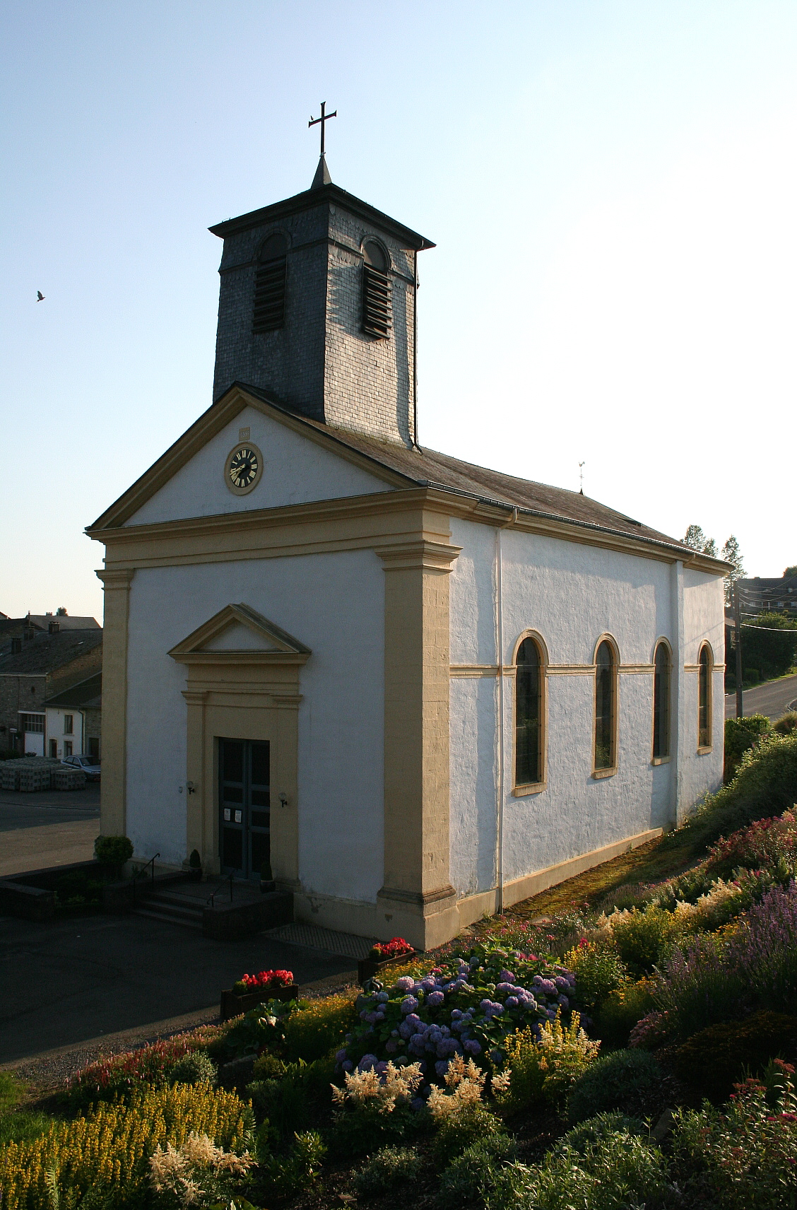 Auby-sur-Semois (Belgium), the St. John the Baptist church (1860-1862).